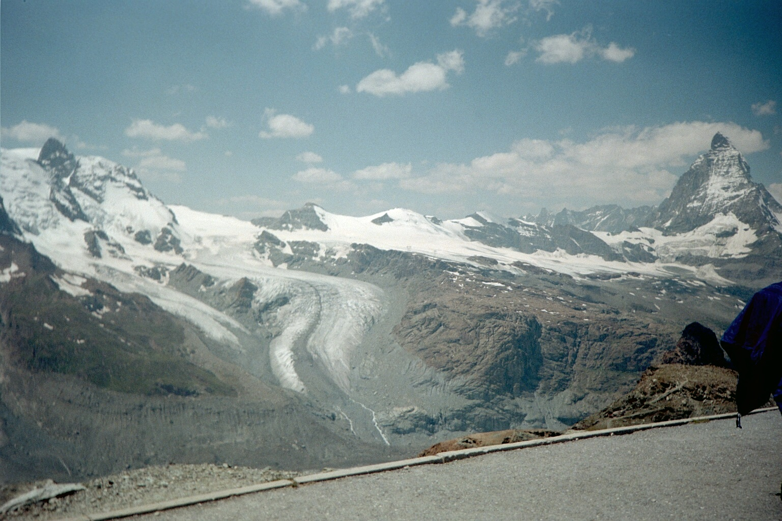 Matterhorn view from Gornergrat